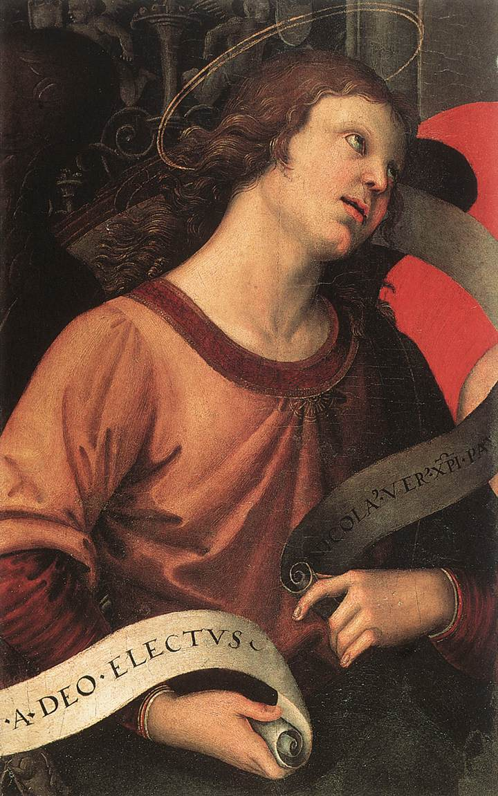 (fragment of the Baronci Altarpiece)